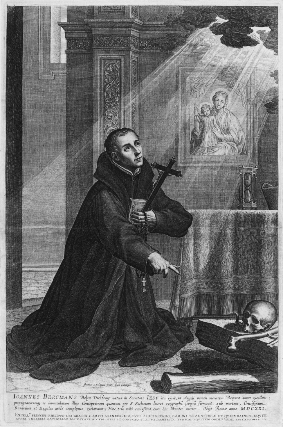 Portrait of the Jesuit Jan Berchmans engraving 40 x 26.1 cm